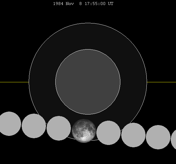 November 1984 lunar eclipse chart of moon's path through the earth's shadow. thumb